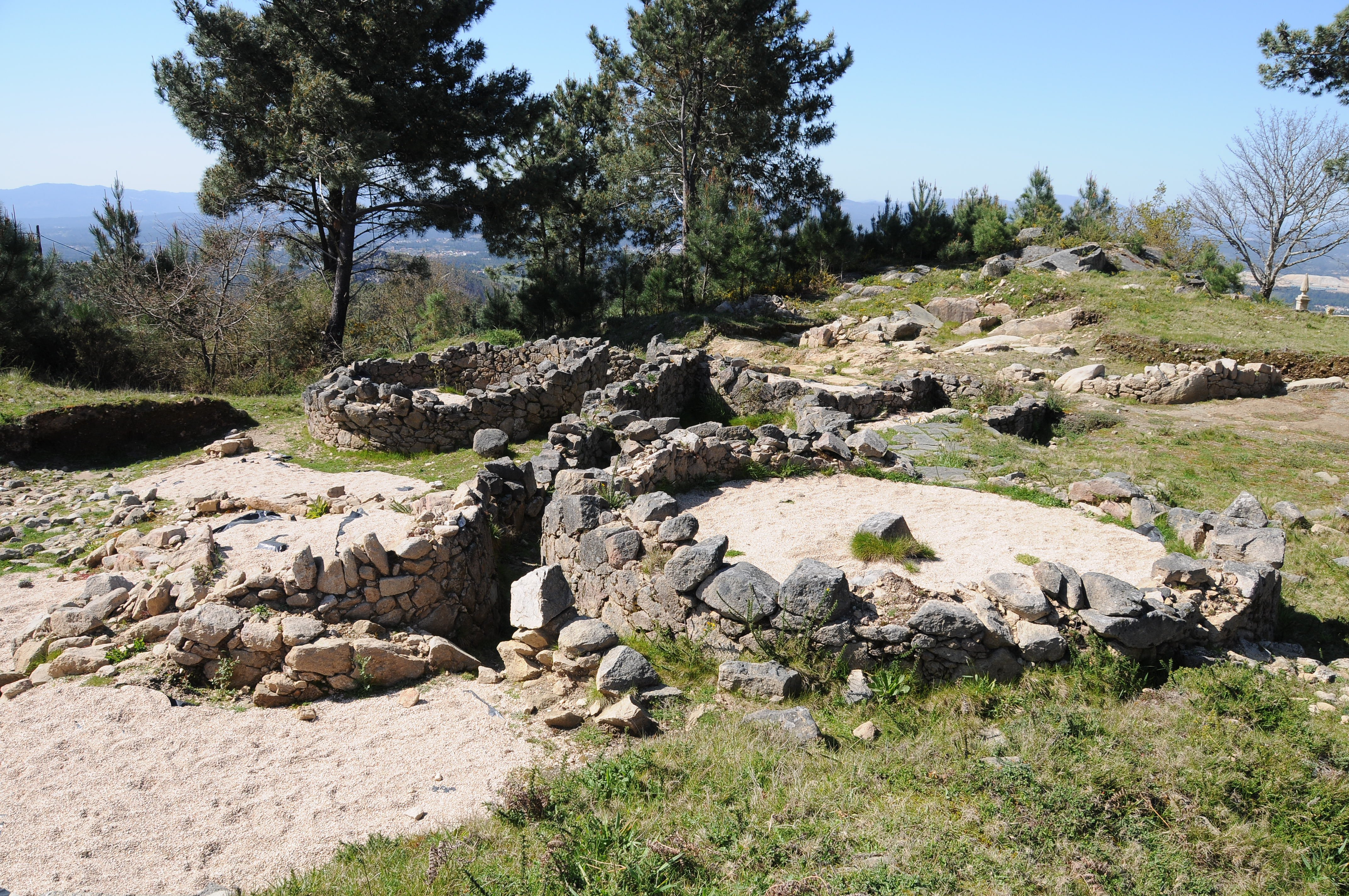 Castro de São Caetano na freguesia de Longos Vales, Monção, Portugal.